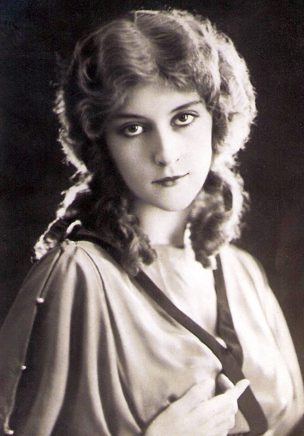 Portrait of German actress Elga Brink in the Italian silent film Quo Vadis (1924).